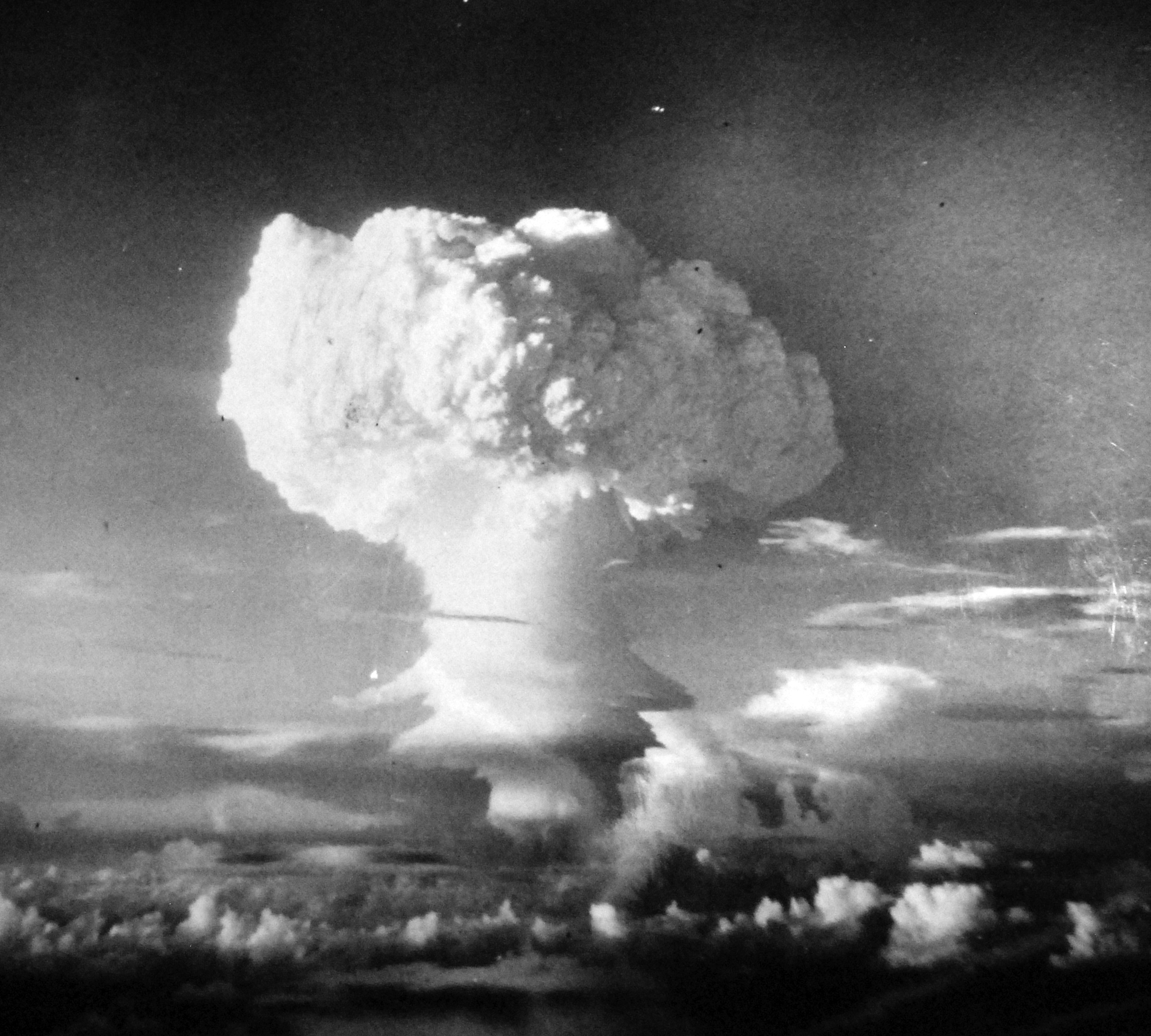 Thermo-Nuclear (Hydrogen) device is set off in the South Pacific during Operation Ivy, photograph received 16 April 1954. Though no other information is on the original mount-card, this detonation is probably Operation Ivy test “Mike”, which occurred on 31 October 1952 at Elugelab (flora) Island in the Enewetak Atoll. The blast was 500 times the yield of the bomb dropped on Nagasaki during World War II. (3/27/2014).